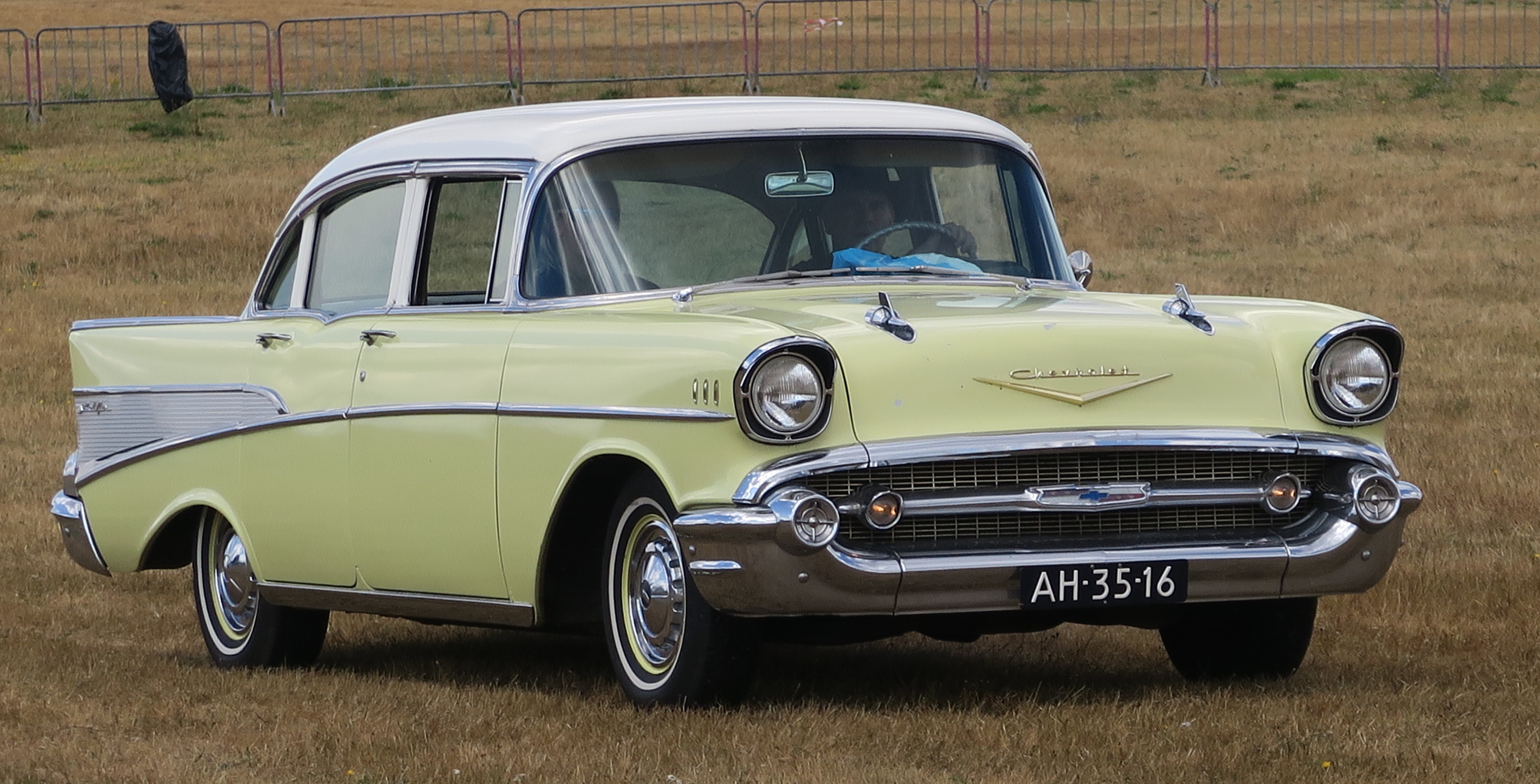 Chevrolet Bel Air arriving Schaffen-Diest 2018